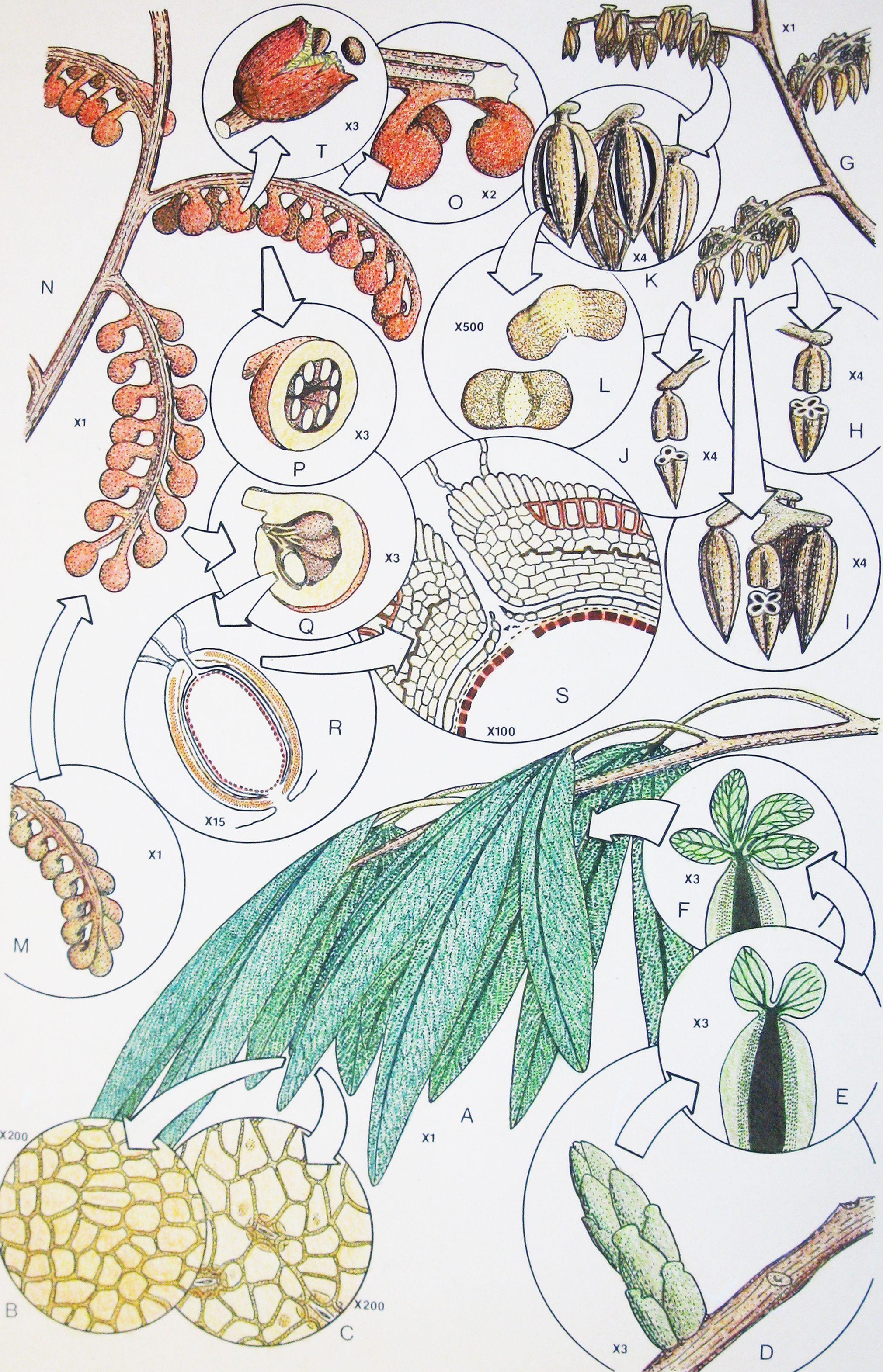 A complete reconstruction of Caytonia drawn by Retallack 1988